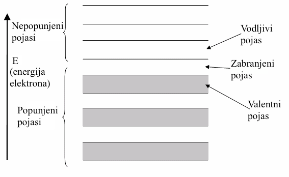 Original :File:Semiconductor band structure (lots of bands).png by Tim Starling